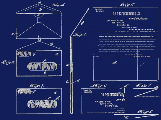 Technical drawing of a windowed envelope, United States Patent 701839, by Americus F. Callahan. Image has been colorised and cleaned up of the more significant blemishes.